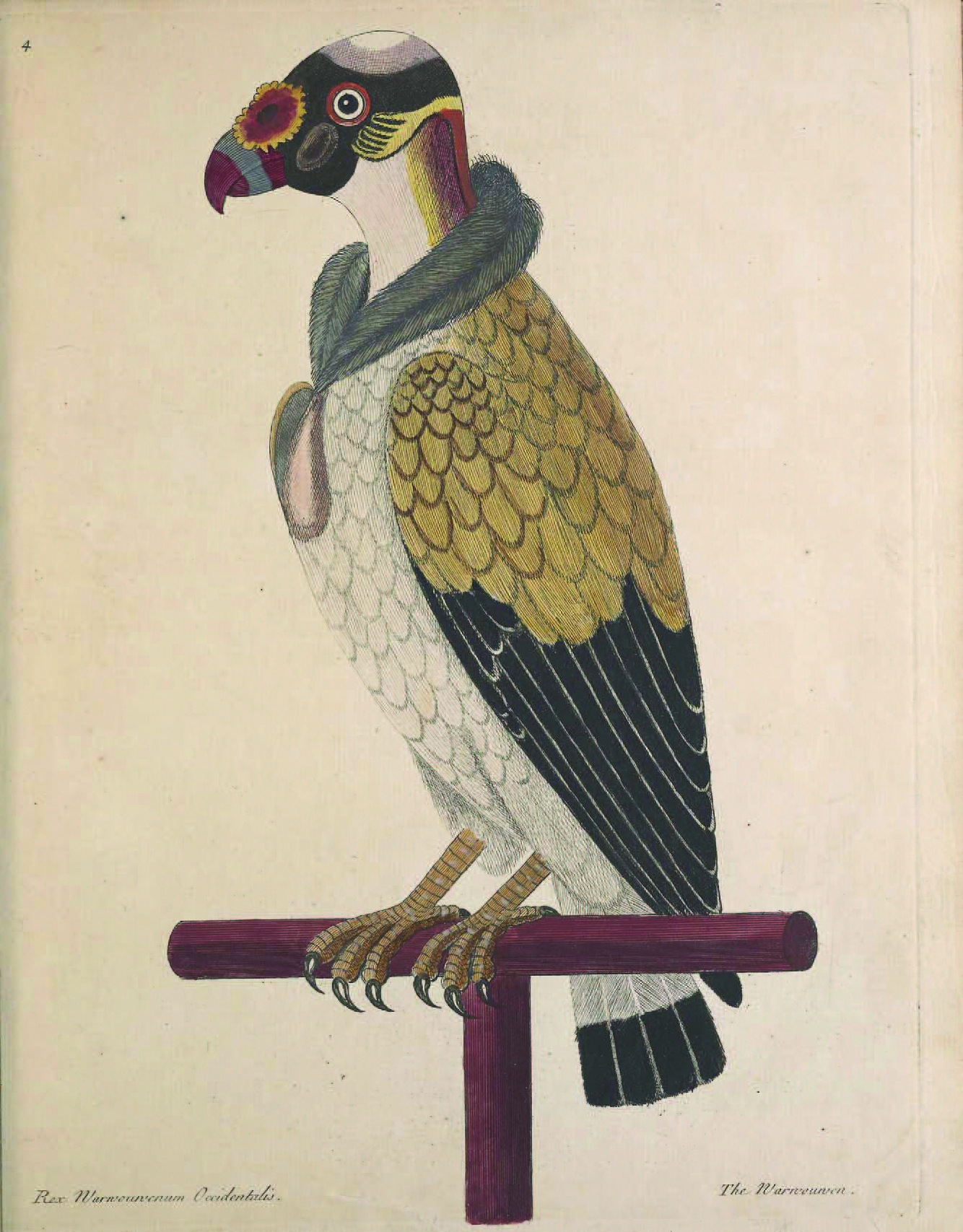 Painted Vulture (Sarcorhamphus sacer), drawing by Eleazar Albin